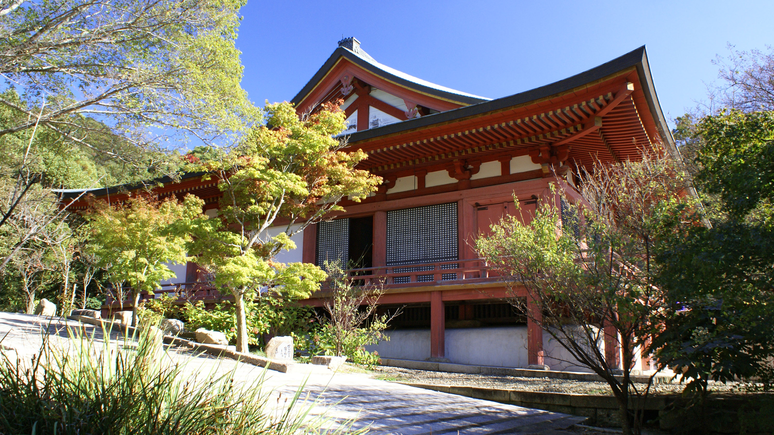 Taisanji Buddhist temple in Kobe, Hyogo prefecture, Japan Opening in 716. This photograph is the Hondo (Japan's national treasure). It was built in 1293.